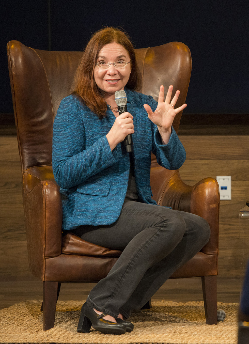 On Tuesday evening, May 1st, 2018, the LBJ Library’s Future Forum members heard from climate scientist Dr. Katharine Hayhoe about how climate change is affecting Texas. Hayhoe is a professor at Texas Tech University and directs its Climate Science Center. Texas Tribune investigative reporter Neena Satija moderated the discussion.